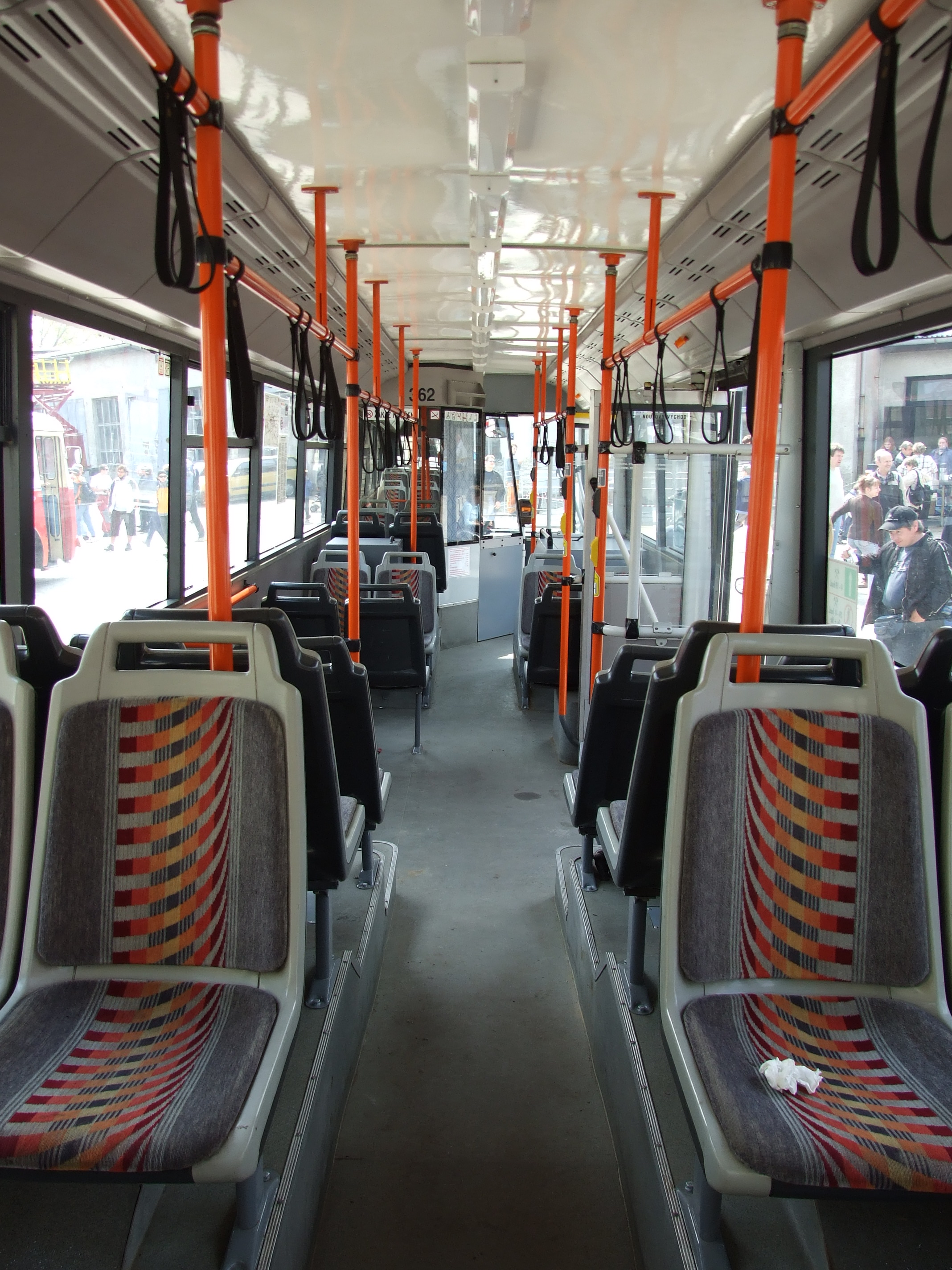 Bus model Škoda 21AB.help